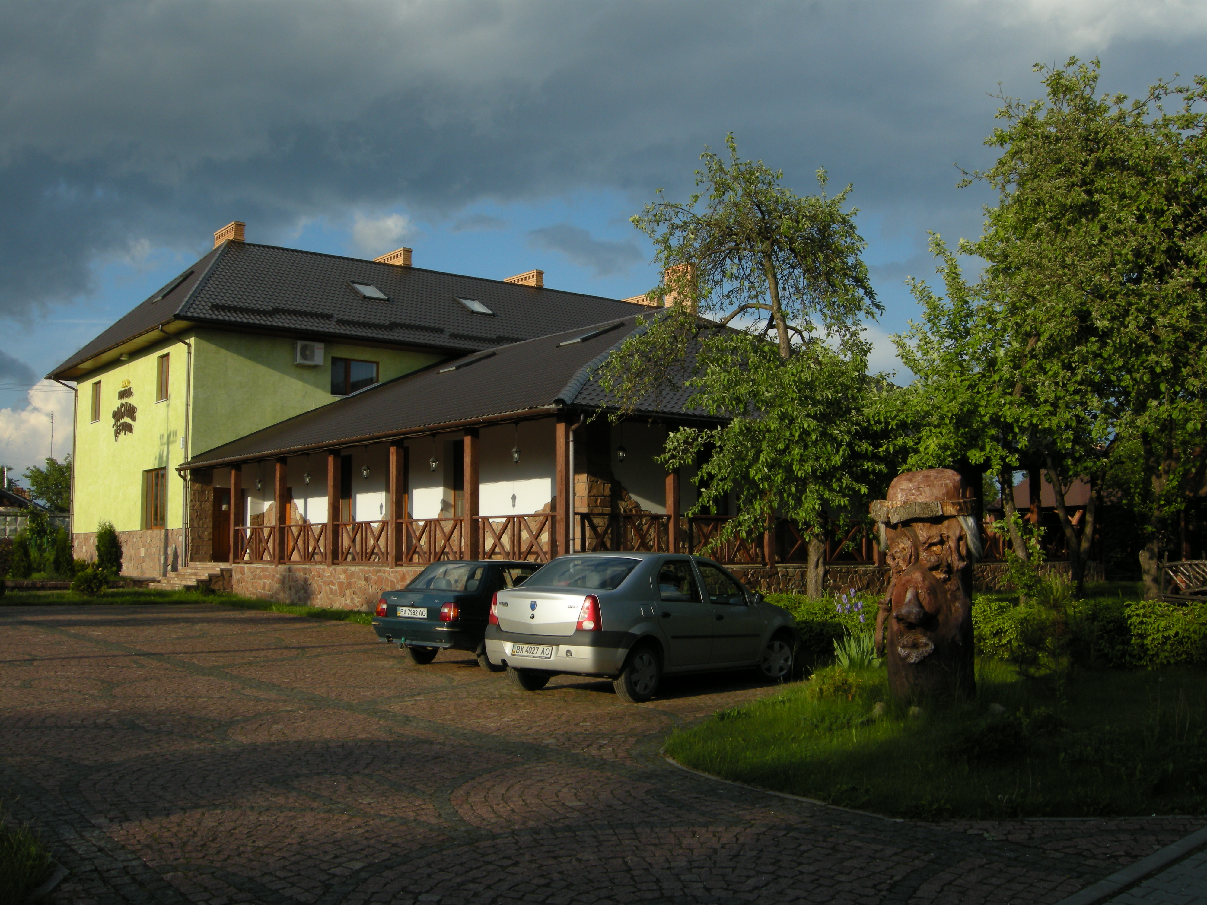 Hotel Zaslav is a three-star hotel and restaurant.